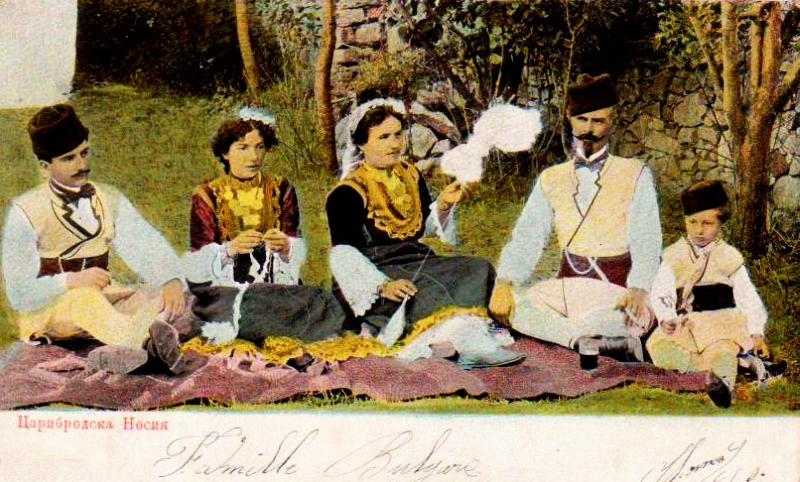 Family from Tsaribrod, Bulgaria in 1906